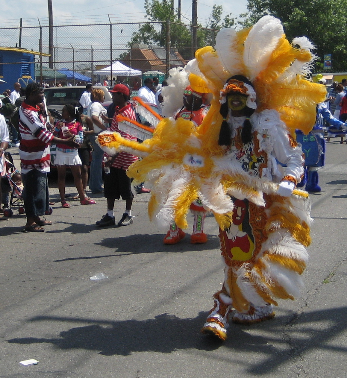 New Orleans: Mardi Gras Indian event in Algiers neighborhood